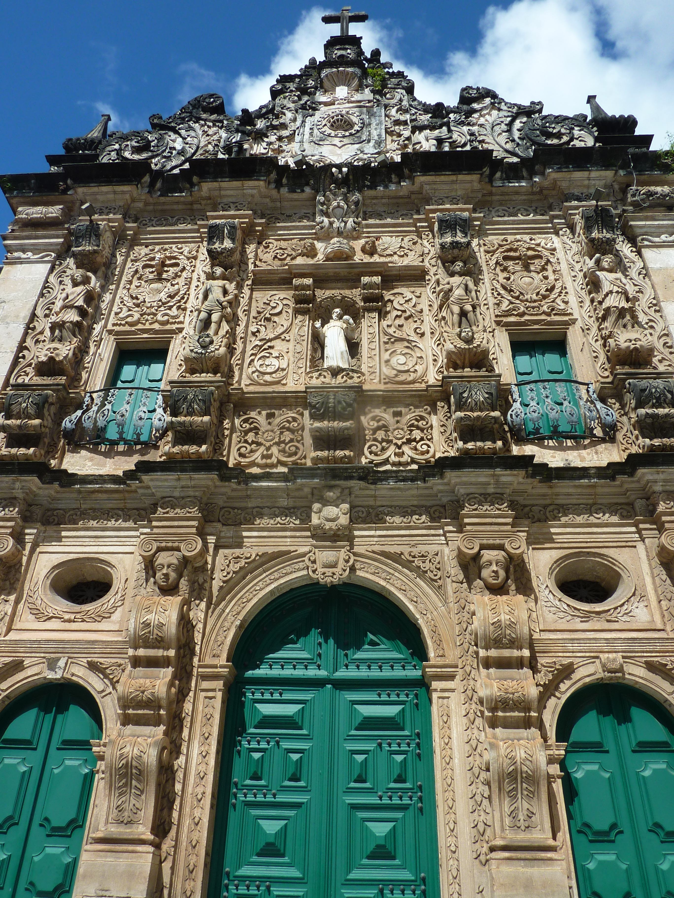 Façade of the Igreja da Ordem Terceira de São Francisco (Salvador, Bahia, Brazil)